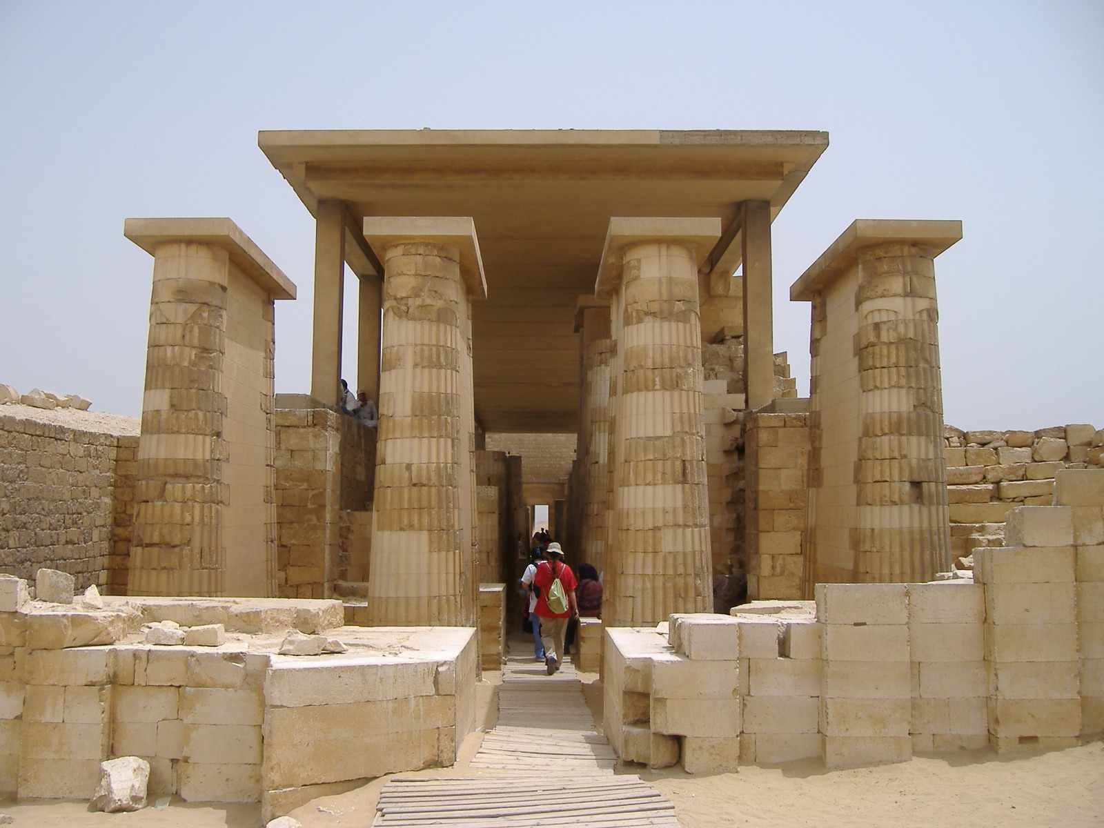 The internal entrance from Djoser’s pyramid complex to the Step Pyramid of Djoser in 2007.